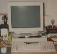 Mike Chapman - public domain